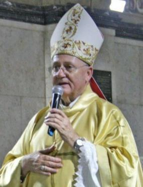 Bishop Nelson Westrupp, scj, diocesan bishop of Santo Andre - Cathedral of Our Lady of Mount Carmel - Santo Andre, SP, Brazil - April 7th 2012